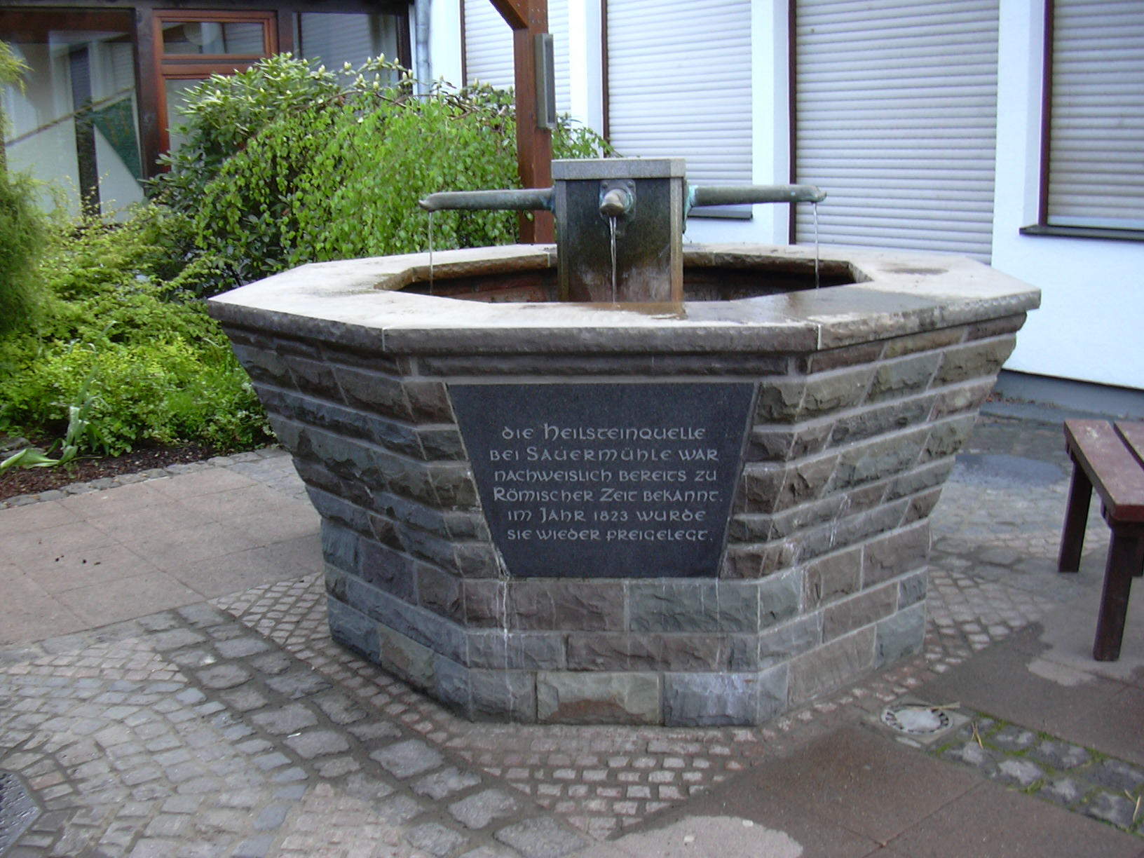 Einruhr/Eifel, Germany, Roman Source